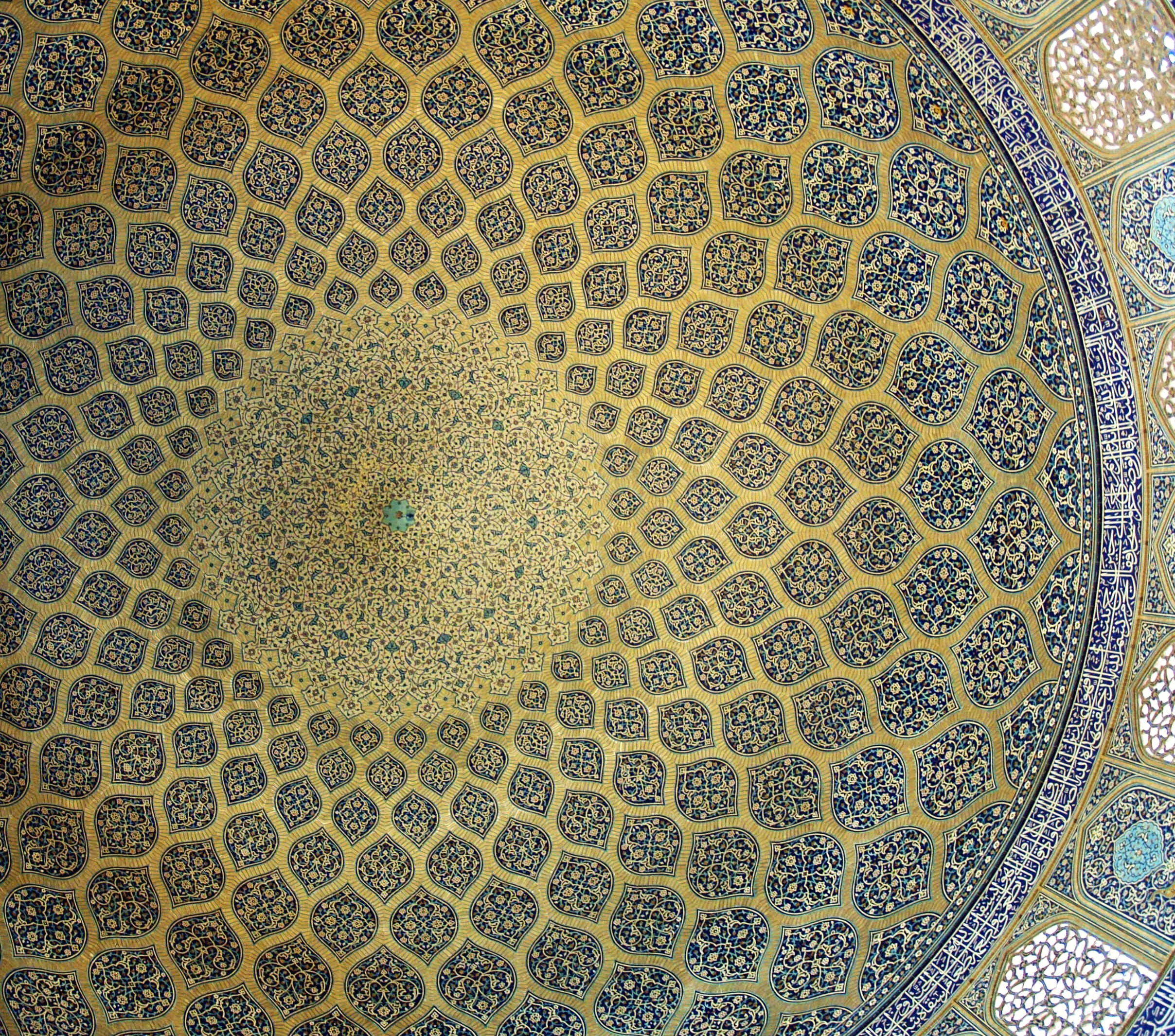 Inside of the dome of Sheikh Lotf Allah Mosque. Isfahan, Iran.